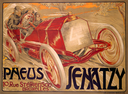 Camille Jenatzy winning the 1903 Gordon Bennet Cup in his Mercedes.